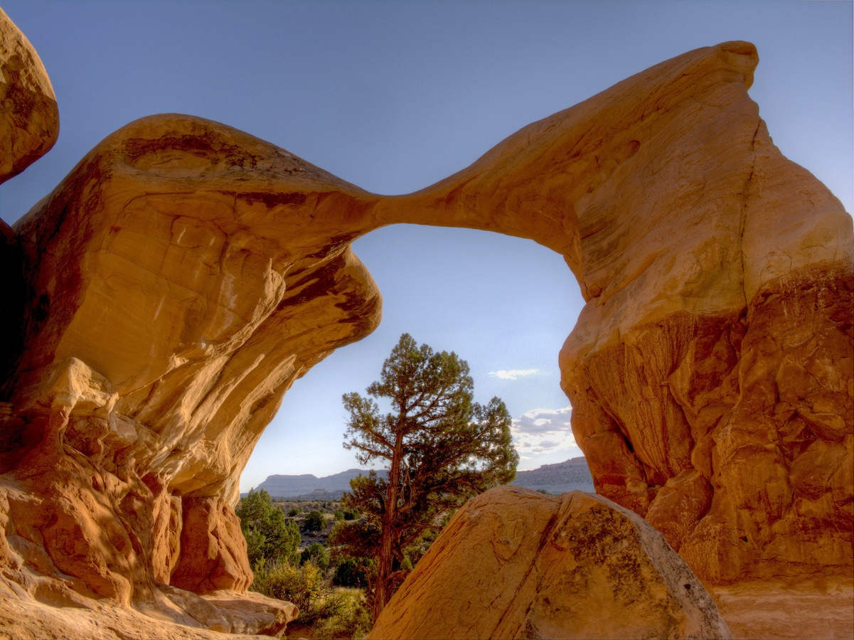 Metate Arch in Grand Staircase-Escalante National Monument near Escalante, Utah. Seen from the back side here.